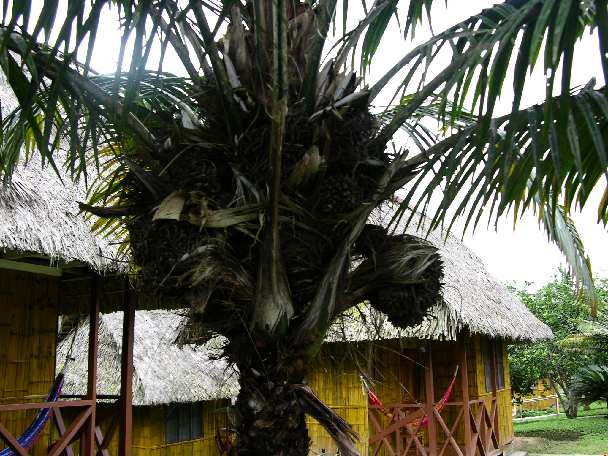 Tagua palm tree